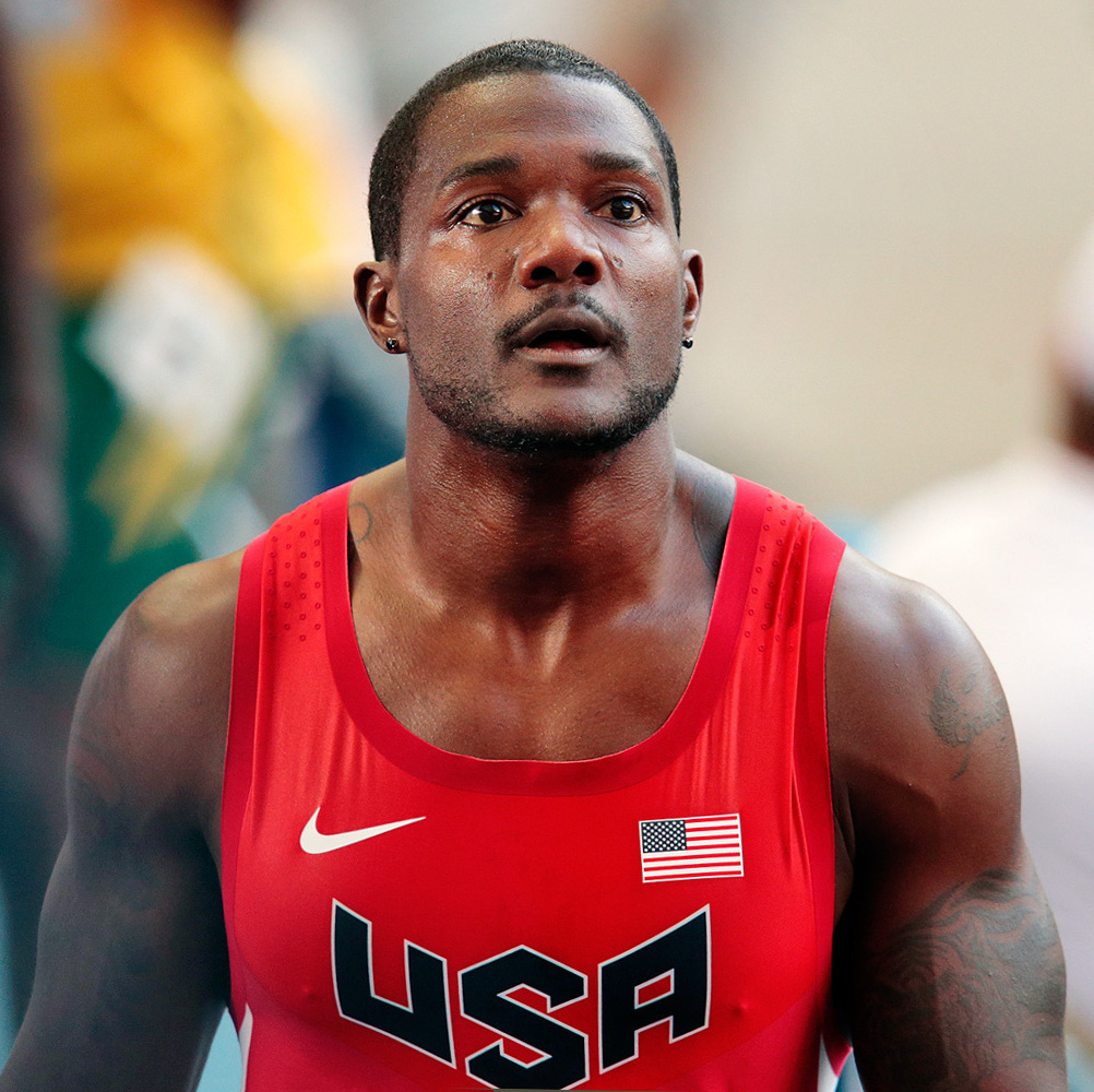 Justin Gatlin on 14th IAAF World Championships in Athletics